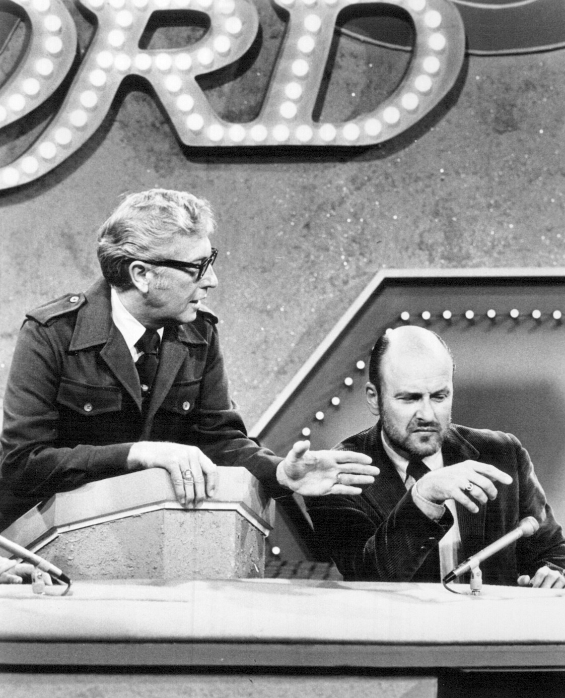 Photo of Allen Ludden and Werner Klemperer on the television game show Password. Klemperer was one of the two celebrity players for that week.